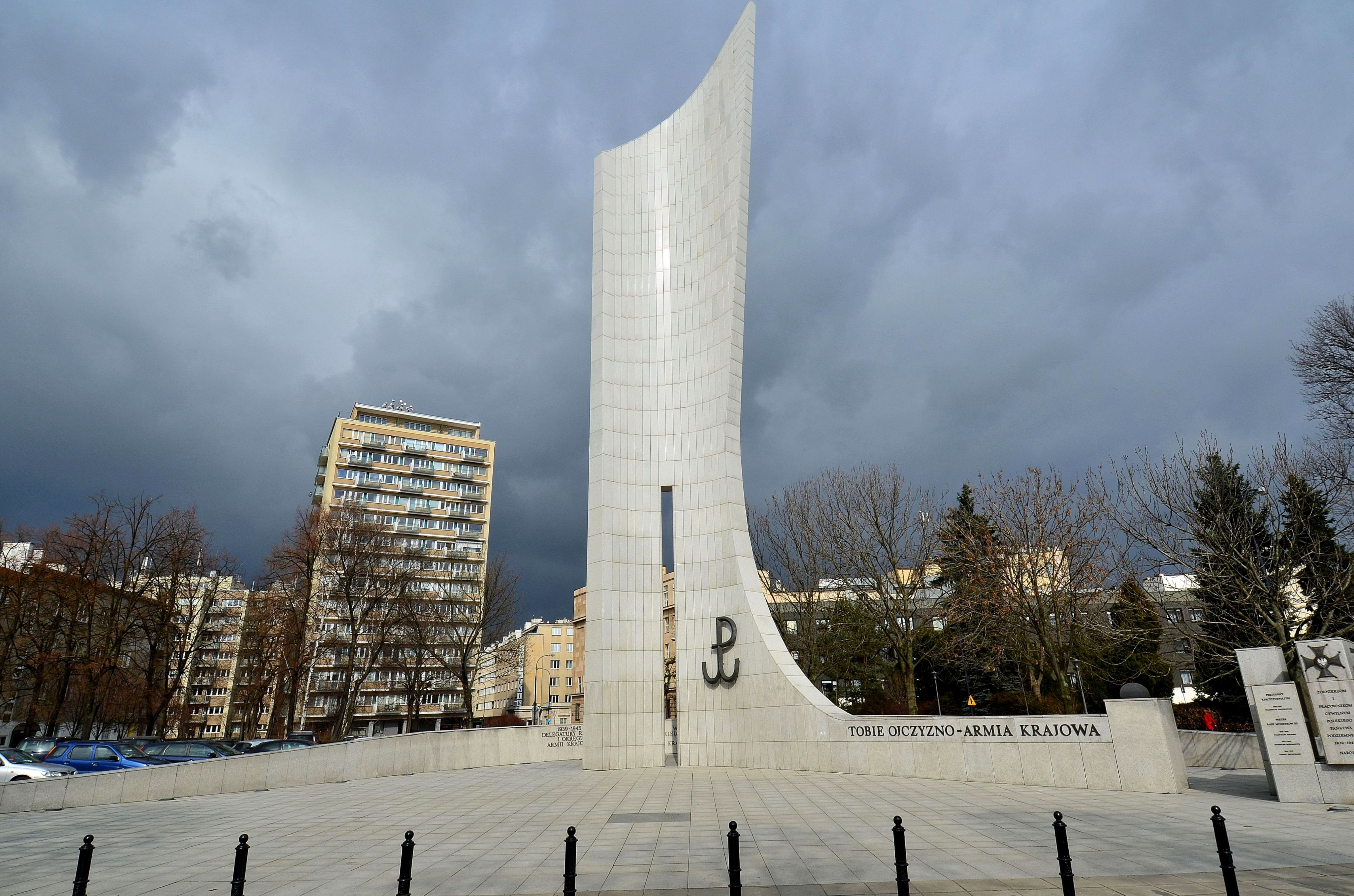 Polish Underground State and Home Army Monument in Warsaw